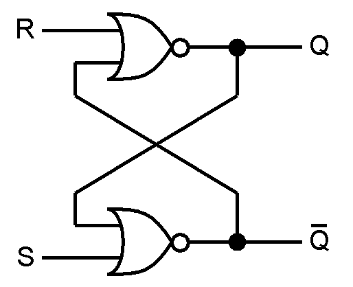 An SR latch constructed from cross-coupled NOR gates